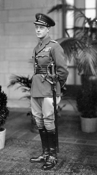 Photograph of Edward, Prince of Wales, during his visit to Canada in 1919.